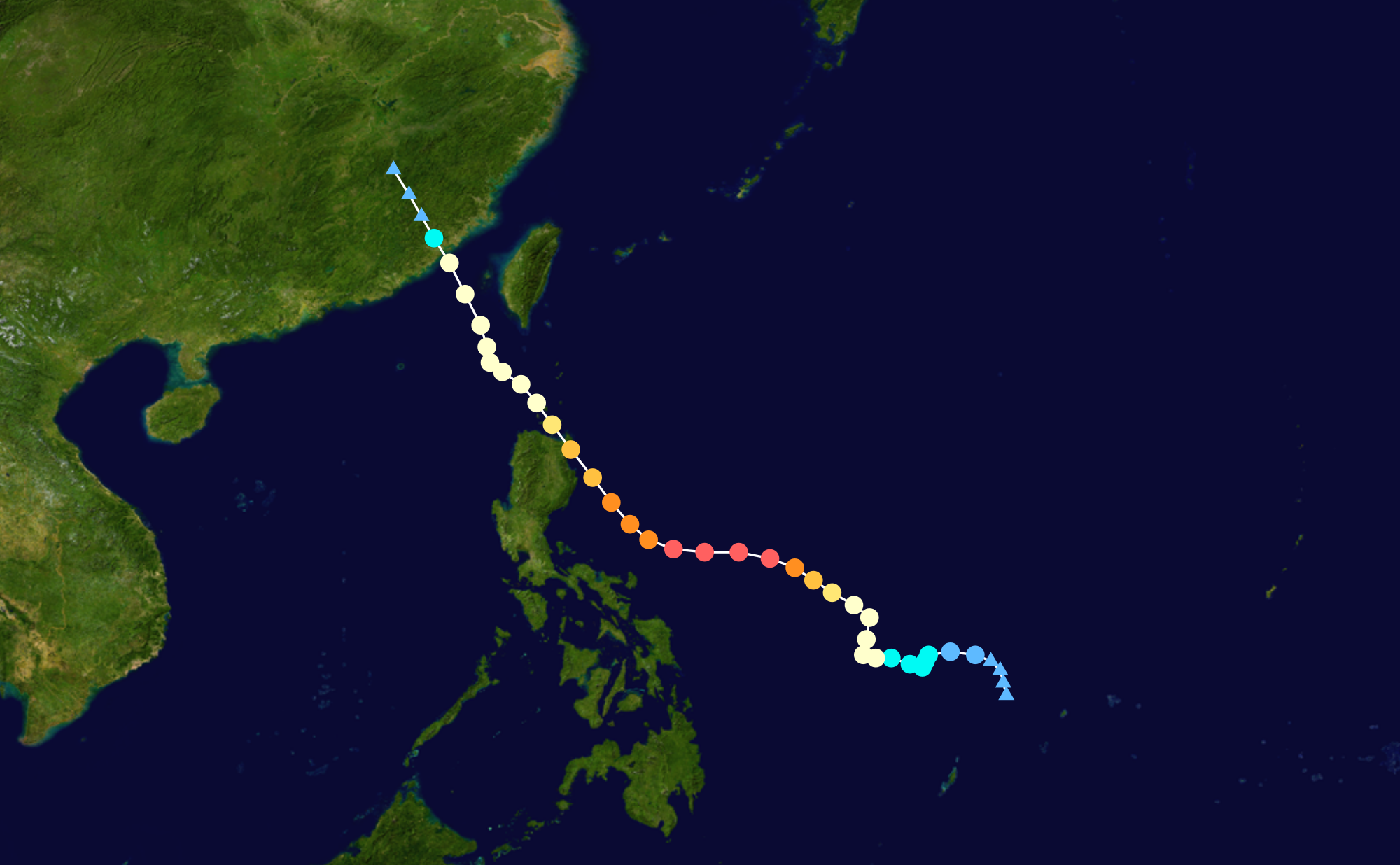 Typhoon Nora 1973 track. Uses the color scheme from the Saffir-Simpson Hurricane Scale.